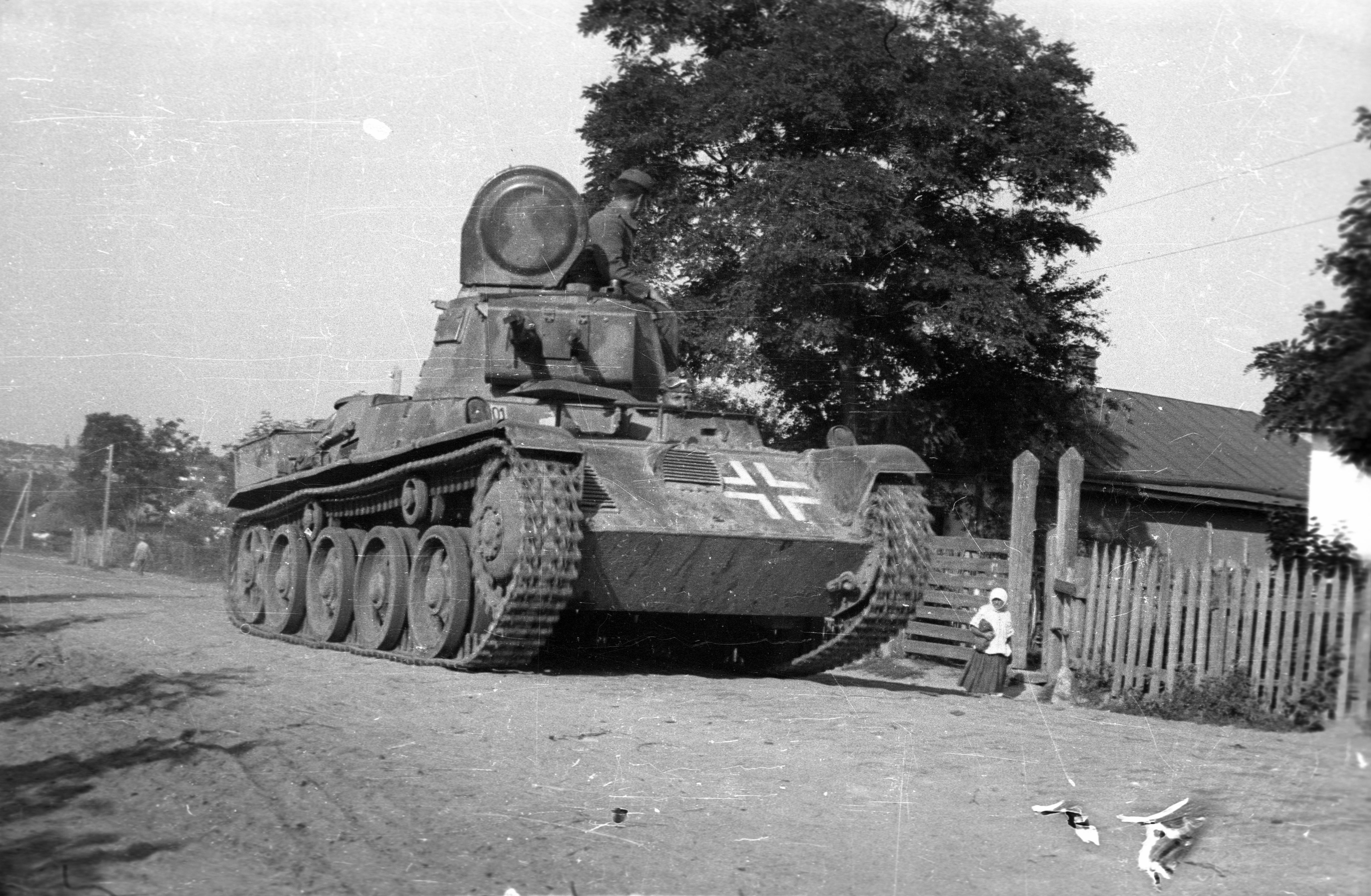 Croatia or Ukraine? Tags: tank, Hungarian brand, soldier